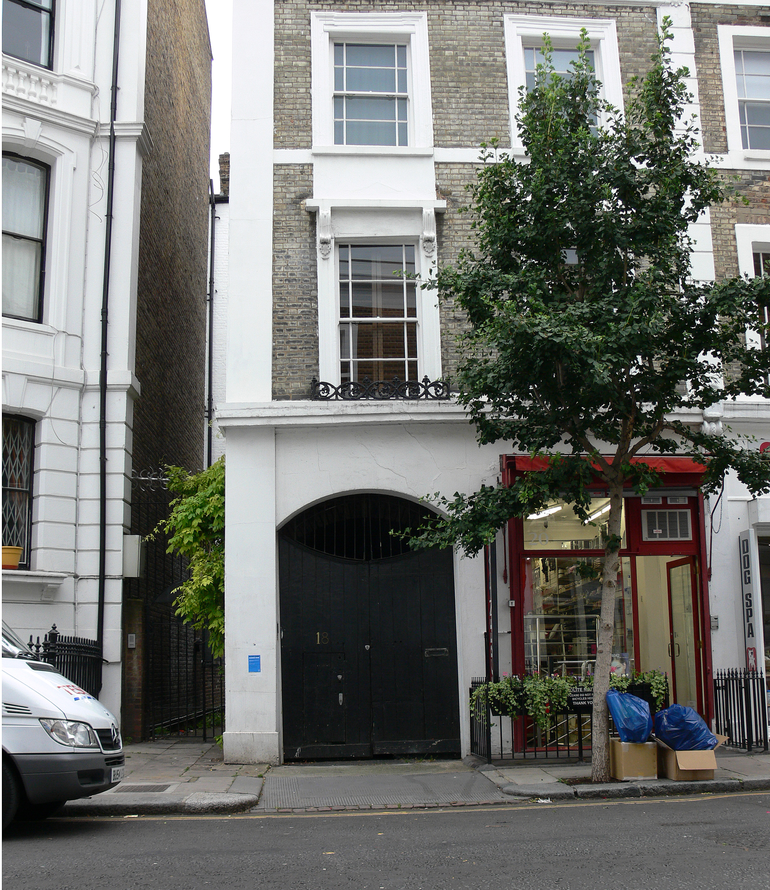 18 Powis Terrace, a building in the Notting Hill neighborhood of London, England, which served as the residential loft for the cast of the American reality TV show, The Real World: London.